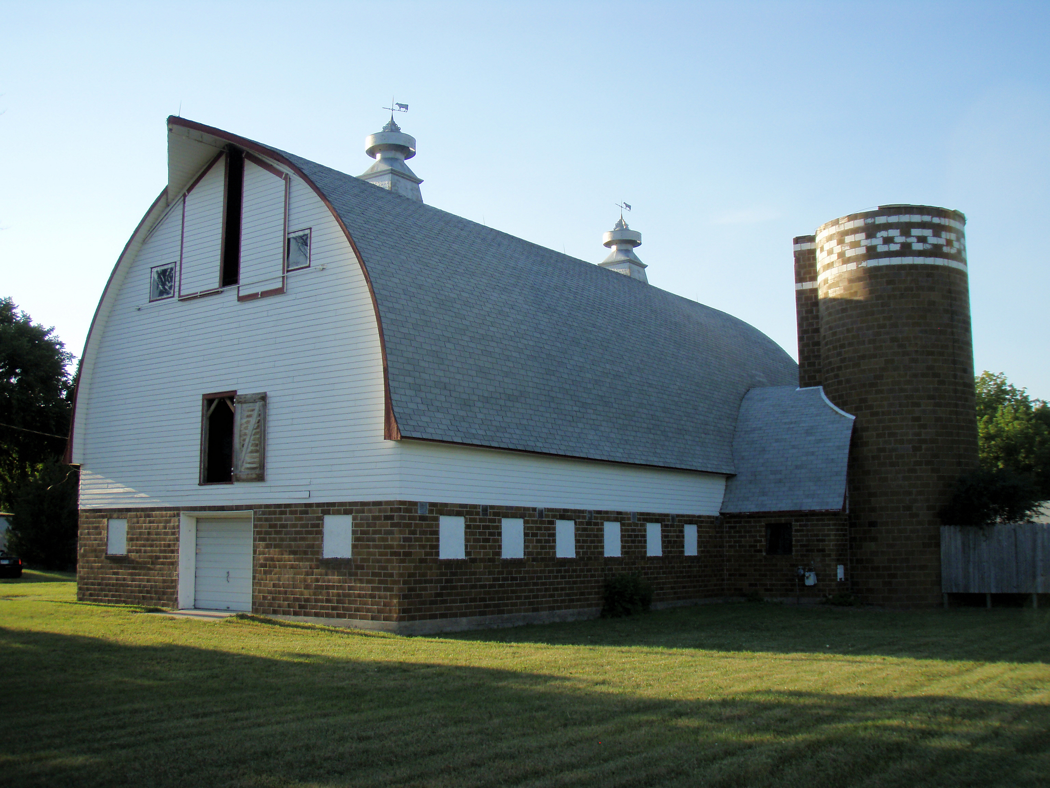 Goodrich-Ramus Barn in Eden Prairie, Minnesota. The barn was built in 1942 and is eligible for listing on the National Register of Historic Places.